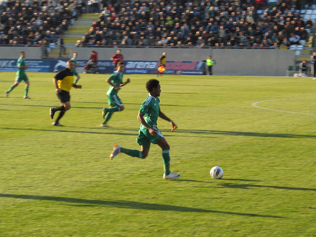 Guilherme DE SOUZA - CHOCO